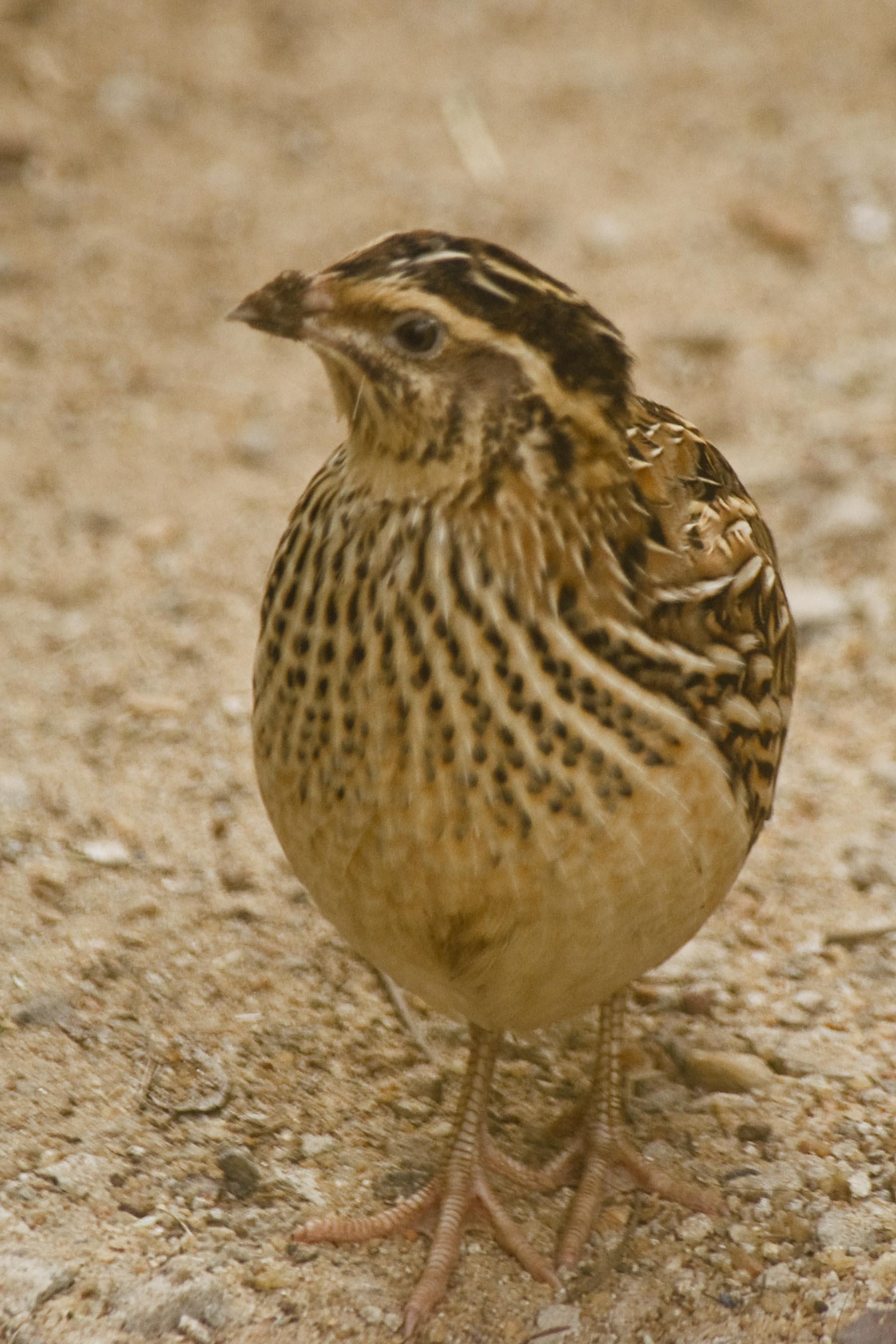 Quail Coturnix sp., captive female, Dharga Town, Sri Lanka